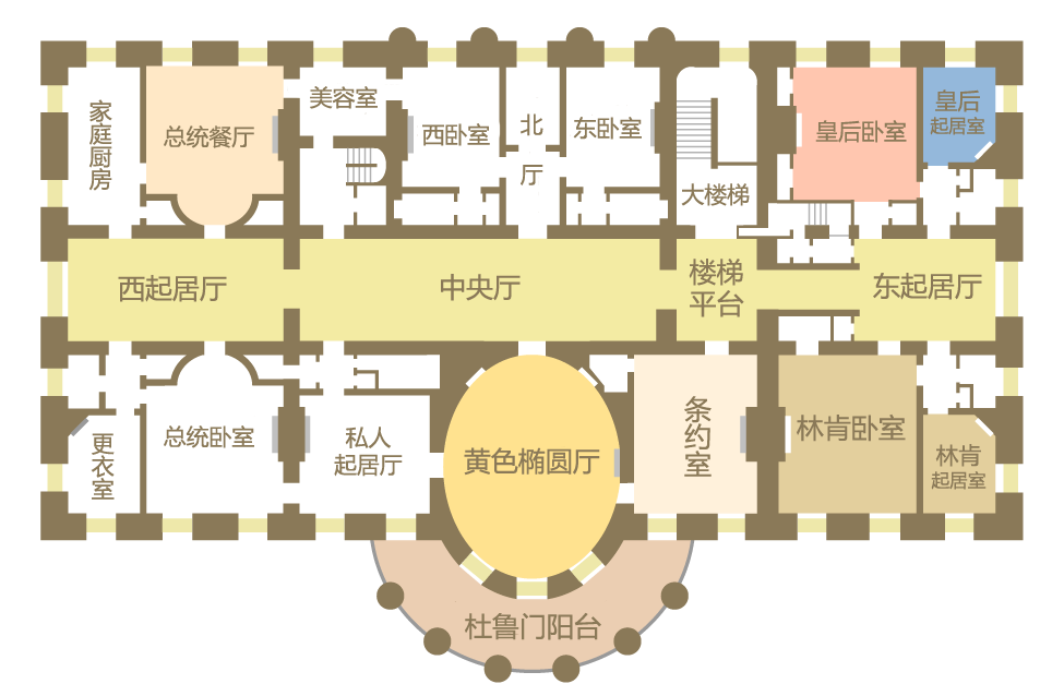 Floor plan of White House Second floor, which features the Center Hall, East Sitting Hall, Lincoln Bedroom, Lincoln Sitting Room, President's Dining Room, Queens' Bedroom, Queens' Sitting Room, Treaty Room, Truman Balcony, West Sitting Hall, and Yellow Oval Room